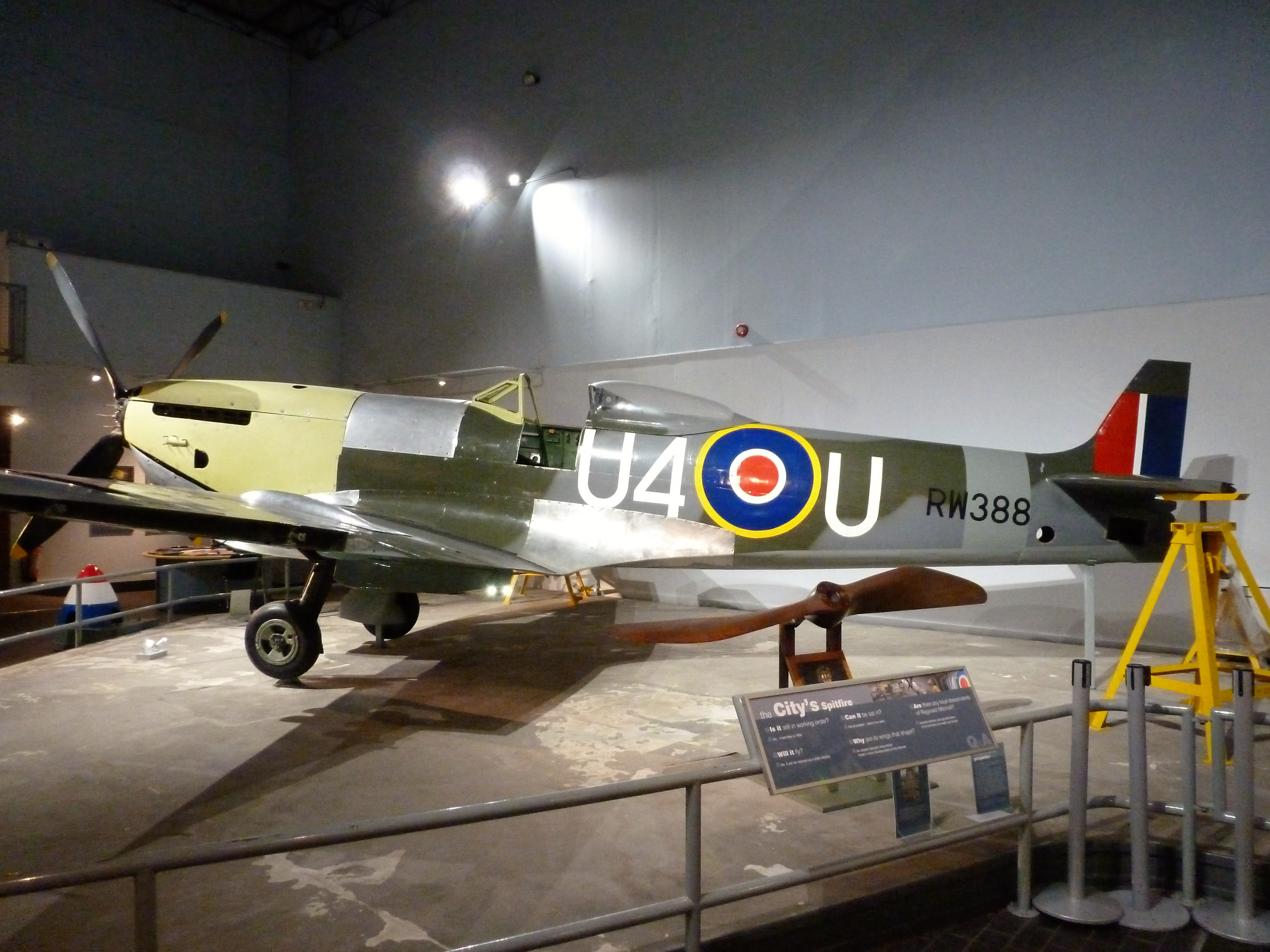 c/n CBAF.IX4646. Built at Castle Bromwich Aircraft Factory. She remained on display at Potteries Museum & Art Gallery, Hanley, Stoke-on-Trent, Staffordshire, UK. 9th November 2016